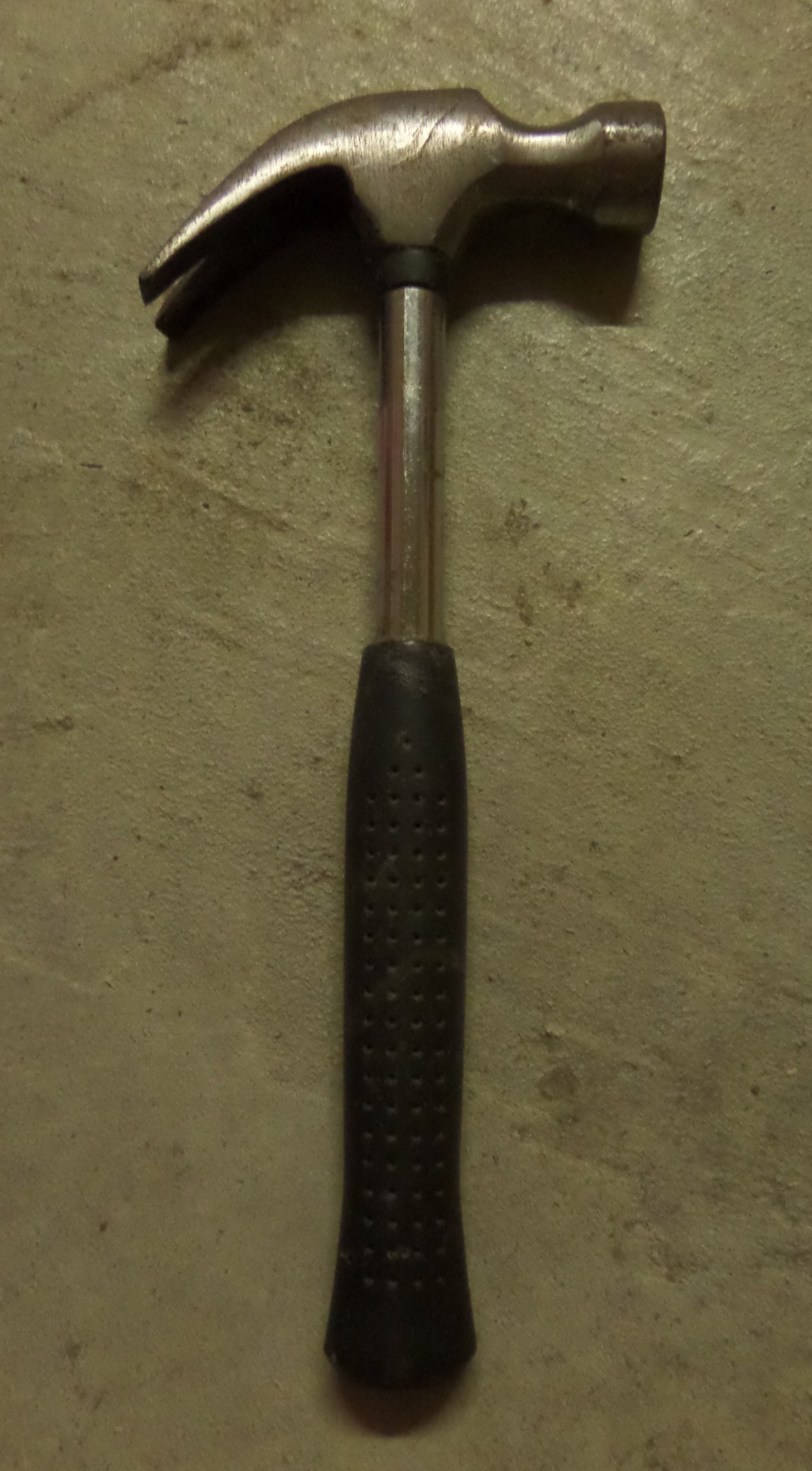 Claw haemr with a black handle